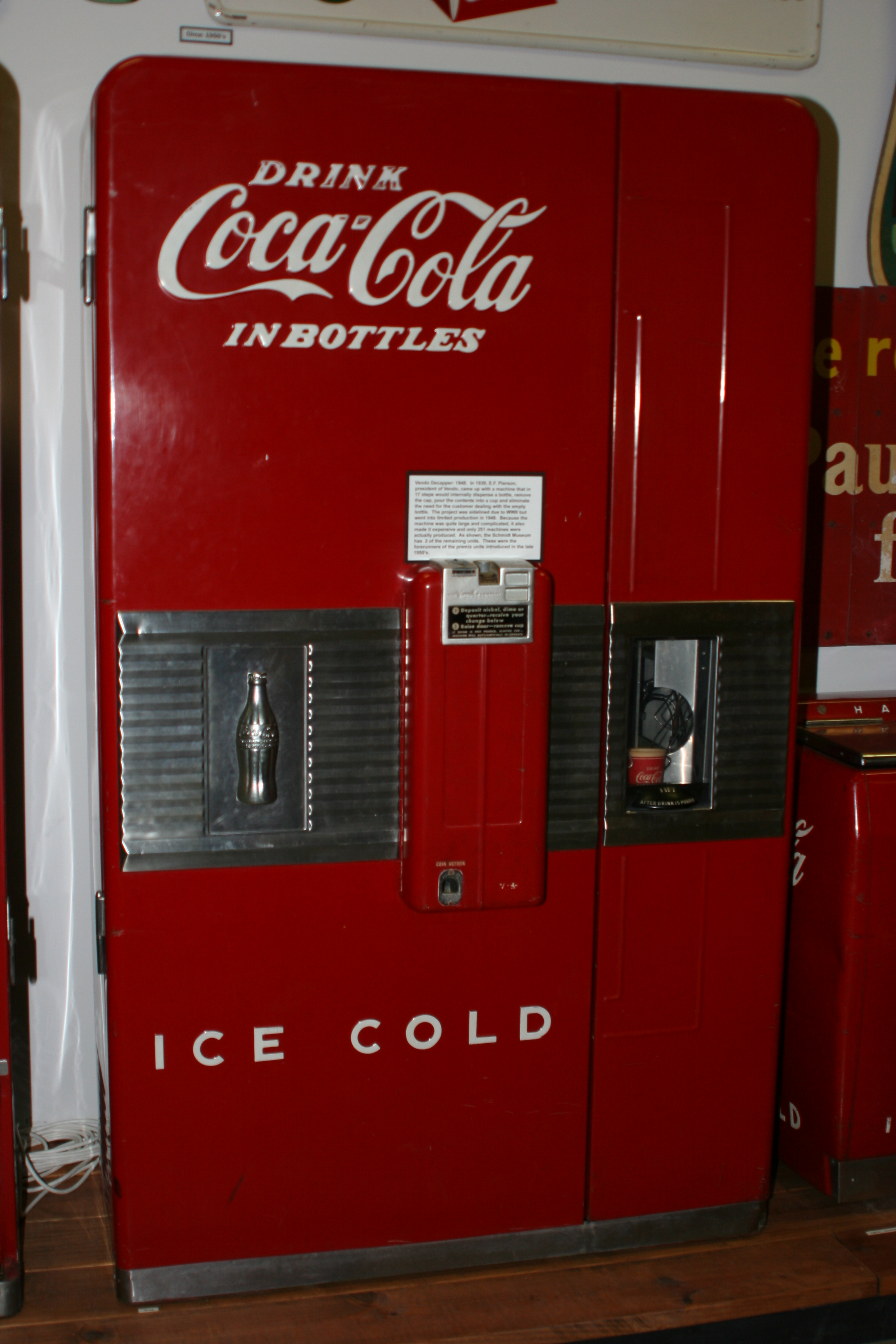 1948 Coca-Cola 'Vendo Decapper' used 17 steps to dispense bottle, remove cap and pour into cup eliminating the need for customer to dispose of bottle. Only 251 copies of this expensive machine were produced.